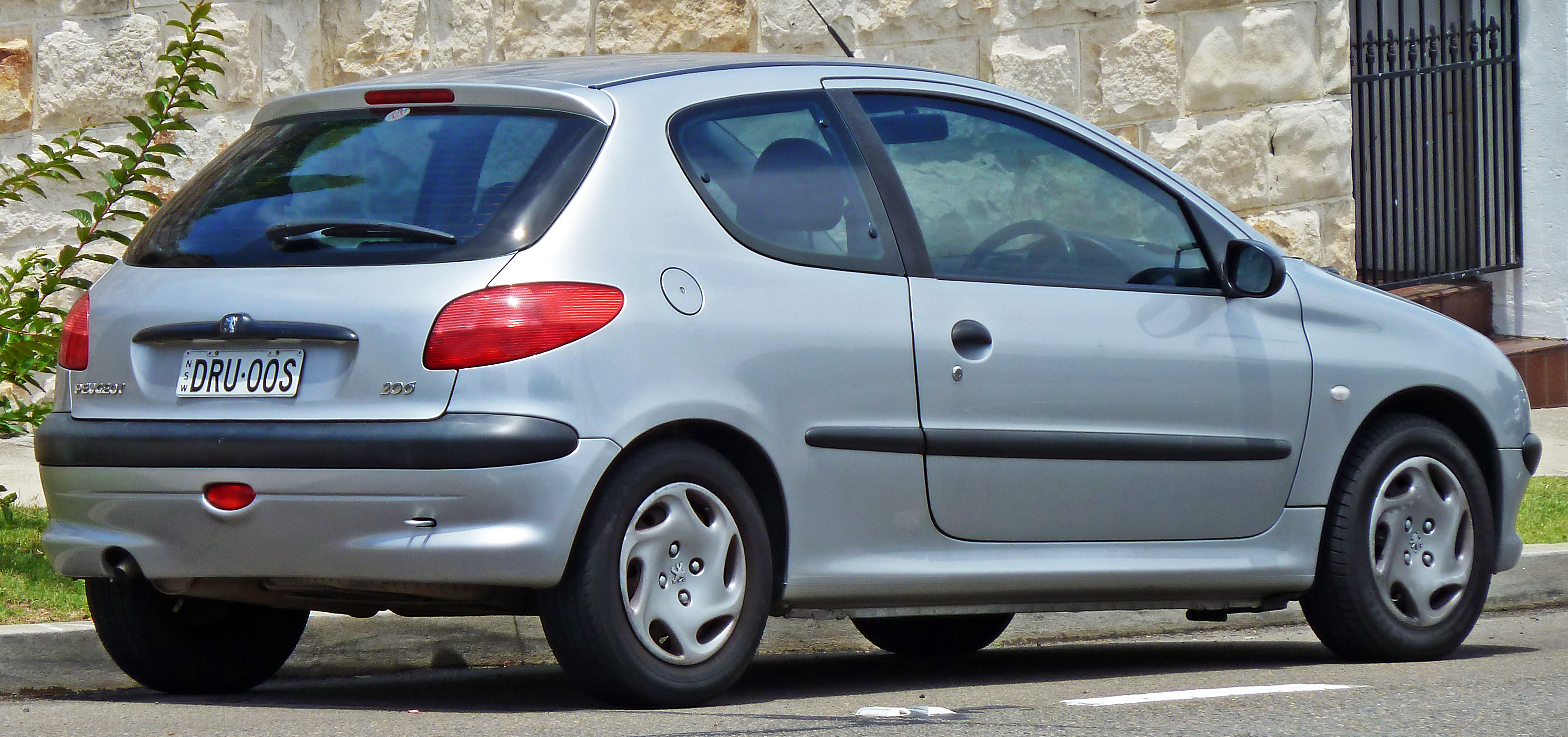 1999–2003 Peugeot 206 (T1) XR 3-door hatchback. Photographed in Rose Bay, New South Wales, Australia.